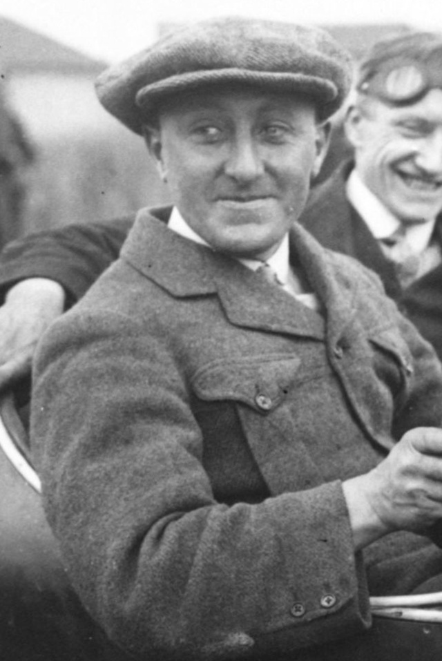 Percy Lambert in his Vauxhall at the 1912 French Grand Prix at Dieppe.